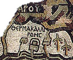 Detail of Madaba map about Callirrhoe Thermae